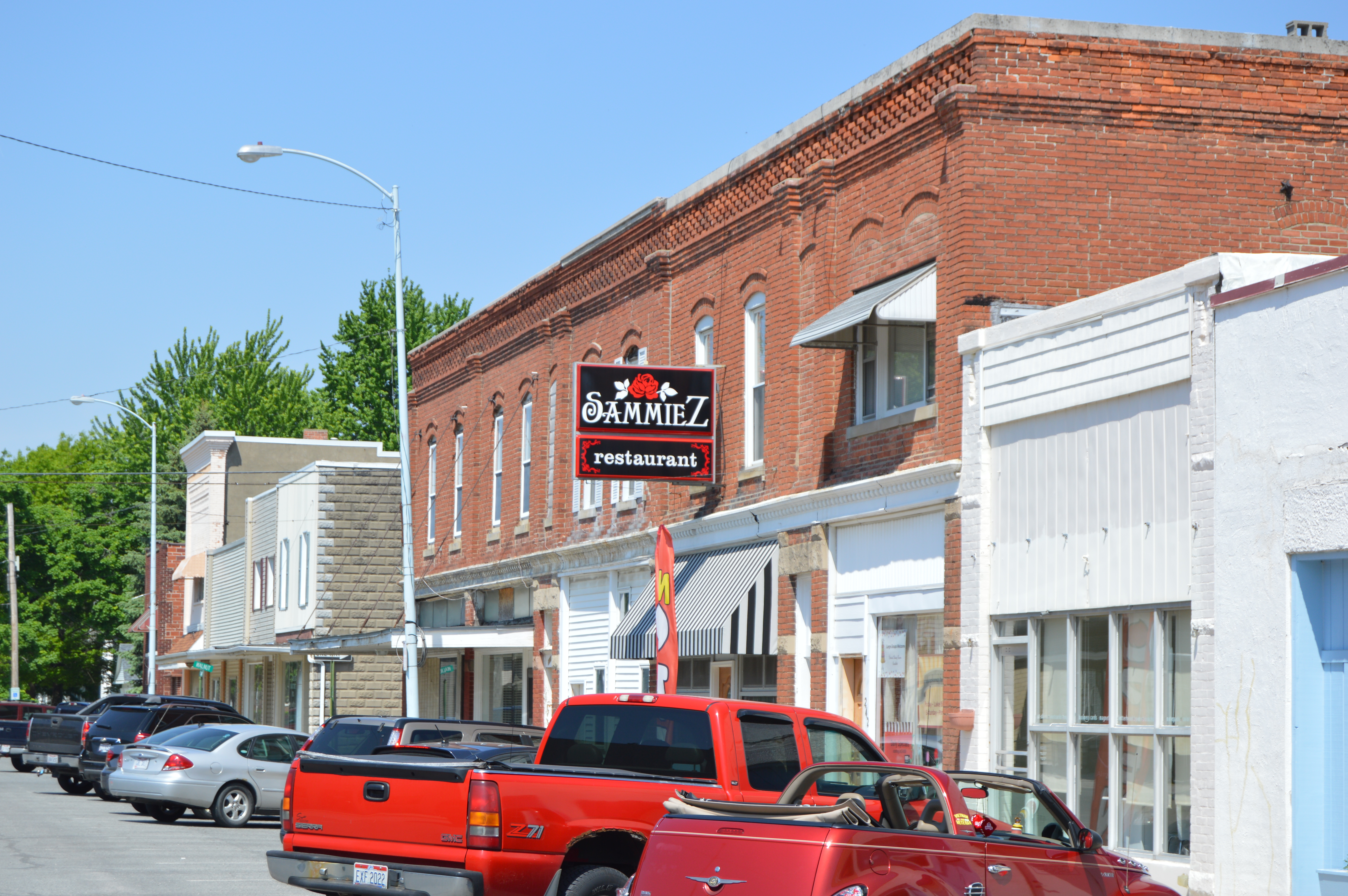 Buildings on the northern side of the 200 block of Main Street in Luckey, Ohio, United States.